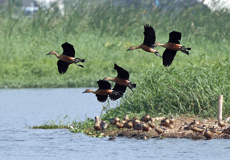 Lesser-whistling Duck (Dendrocygna javanica) in Kolkata, West Bengal, India.